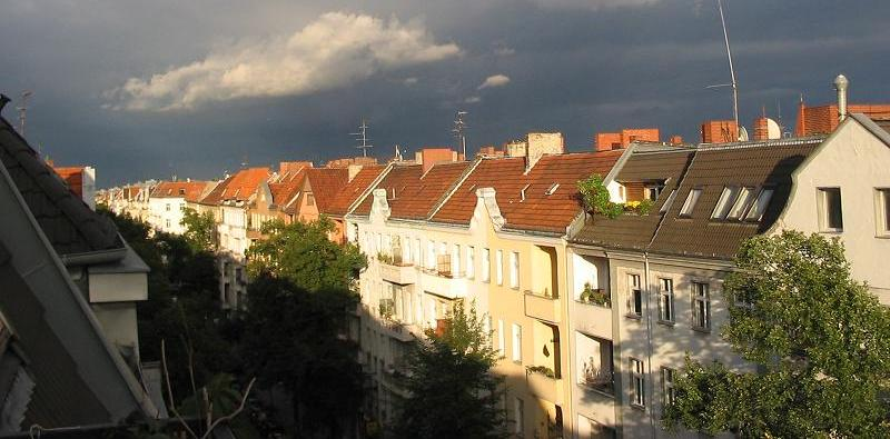 Description: Berlin-Neukölln. Emser Straße, side road of Hermannstraße. August 2005, picture taken in Berlin, Germany License: GFDL/CC-BY-SA-2.5,2.0,1.0